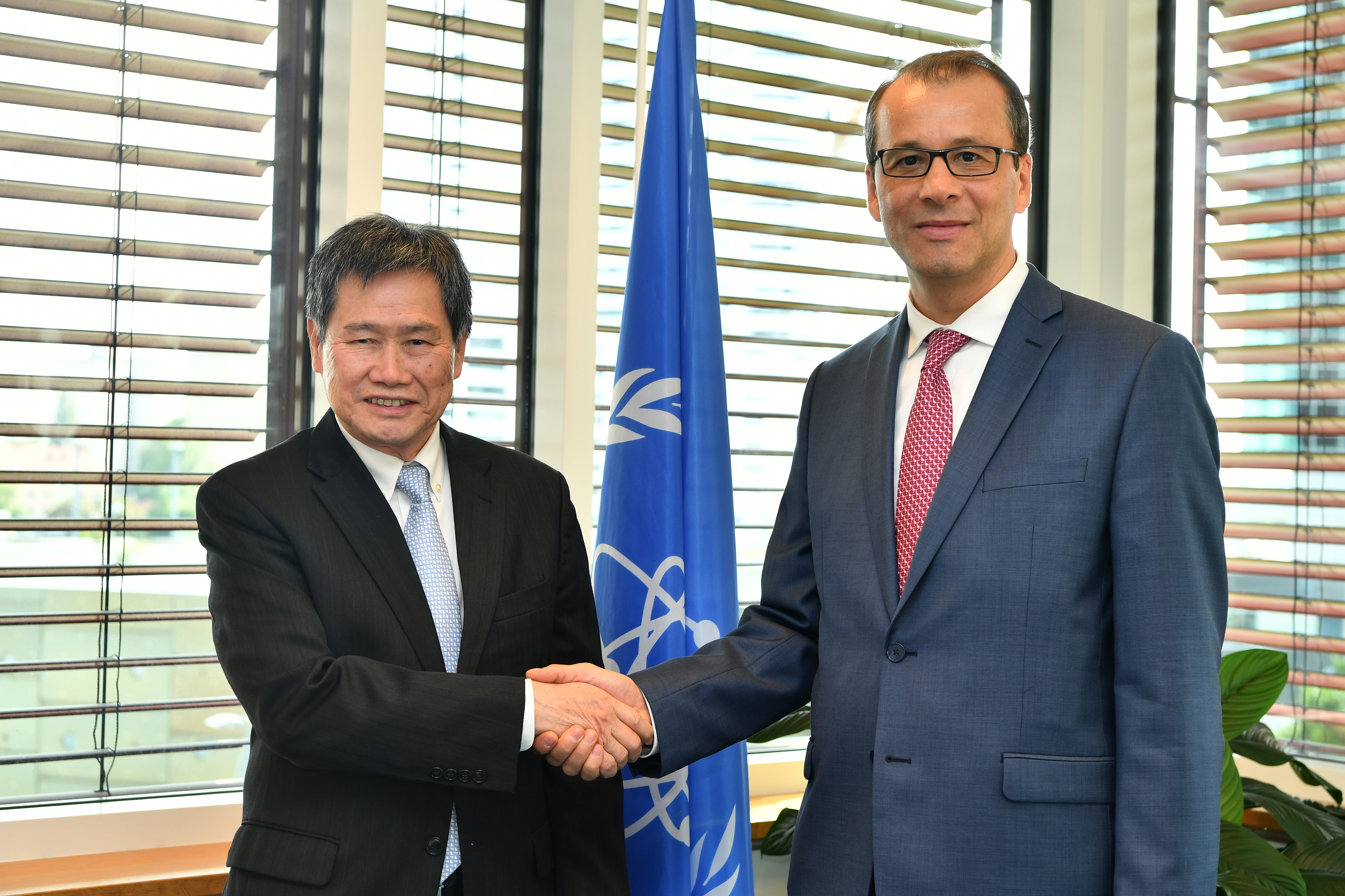 Courtesy call HE Dato Lim Jock Hoi, Secretary General ASEAN to Cornel Feruta, IAEA Acting Director General at the IAEA 63rd General Conference. IAEA, Vienna, Austria. 16 September 2019. Photo Credit: Dean Calma / IAEA